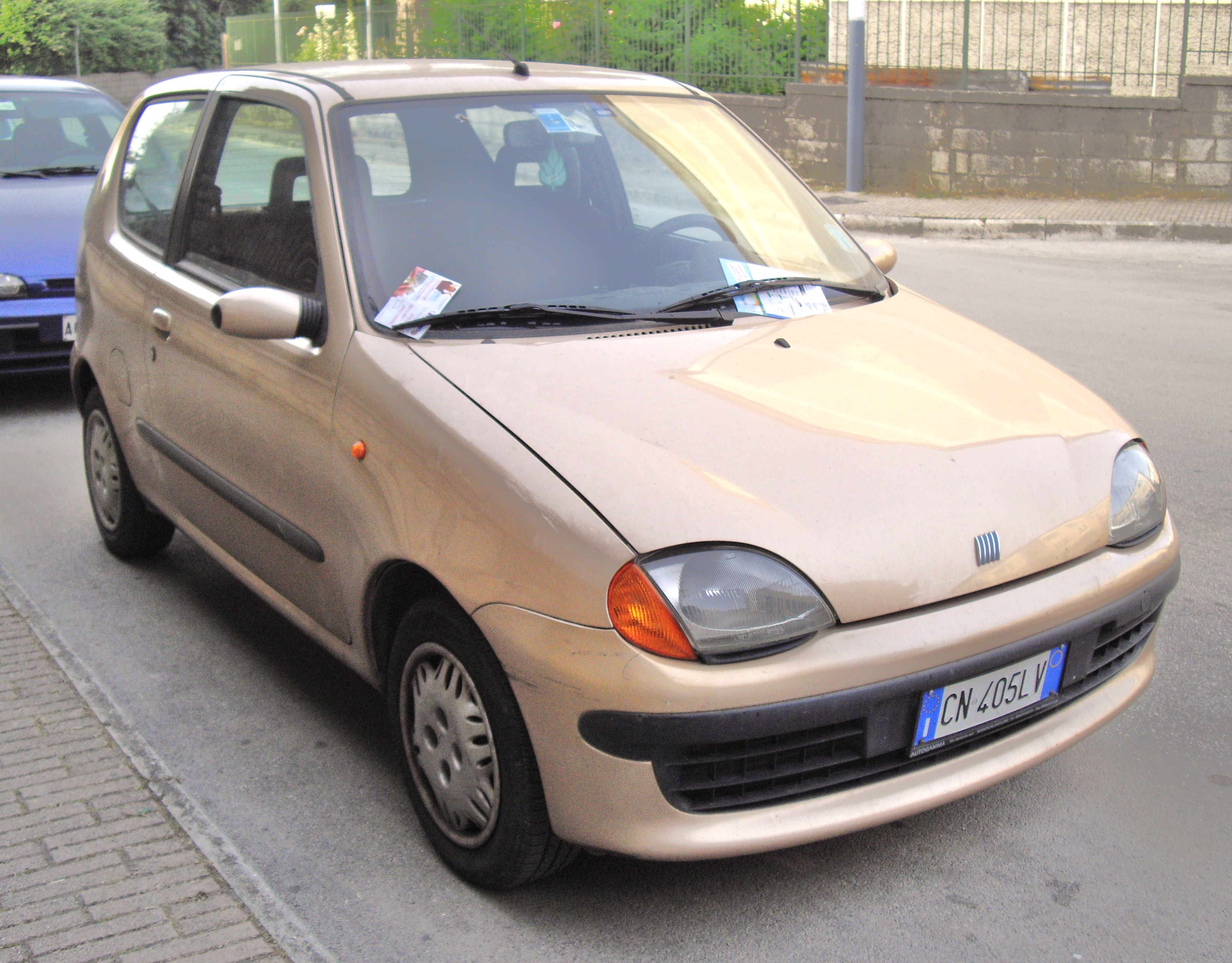 Fiat Seicento Suite front